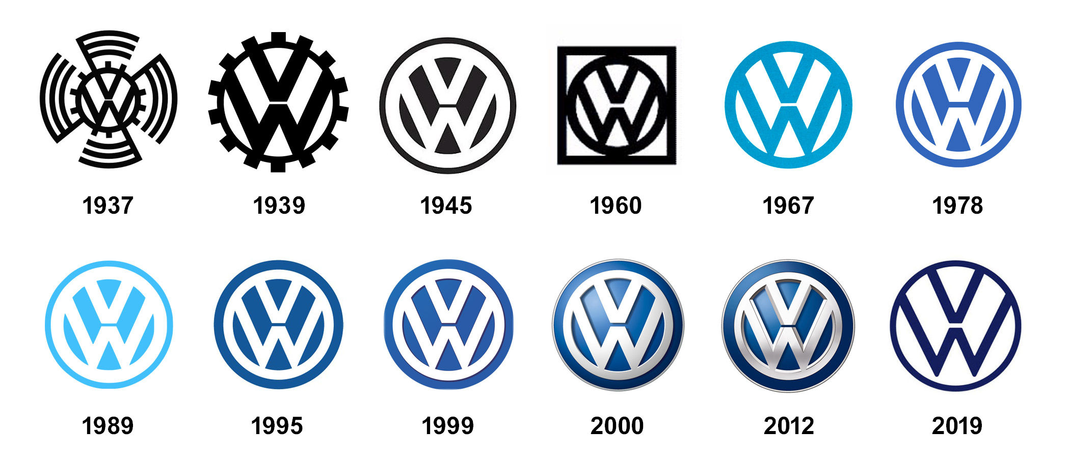 Volkswagen Logo history